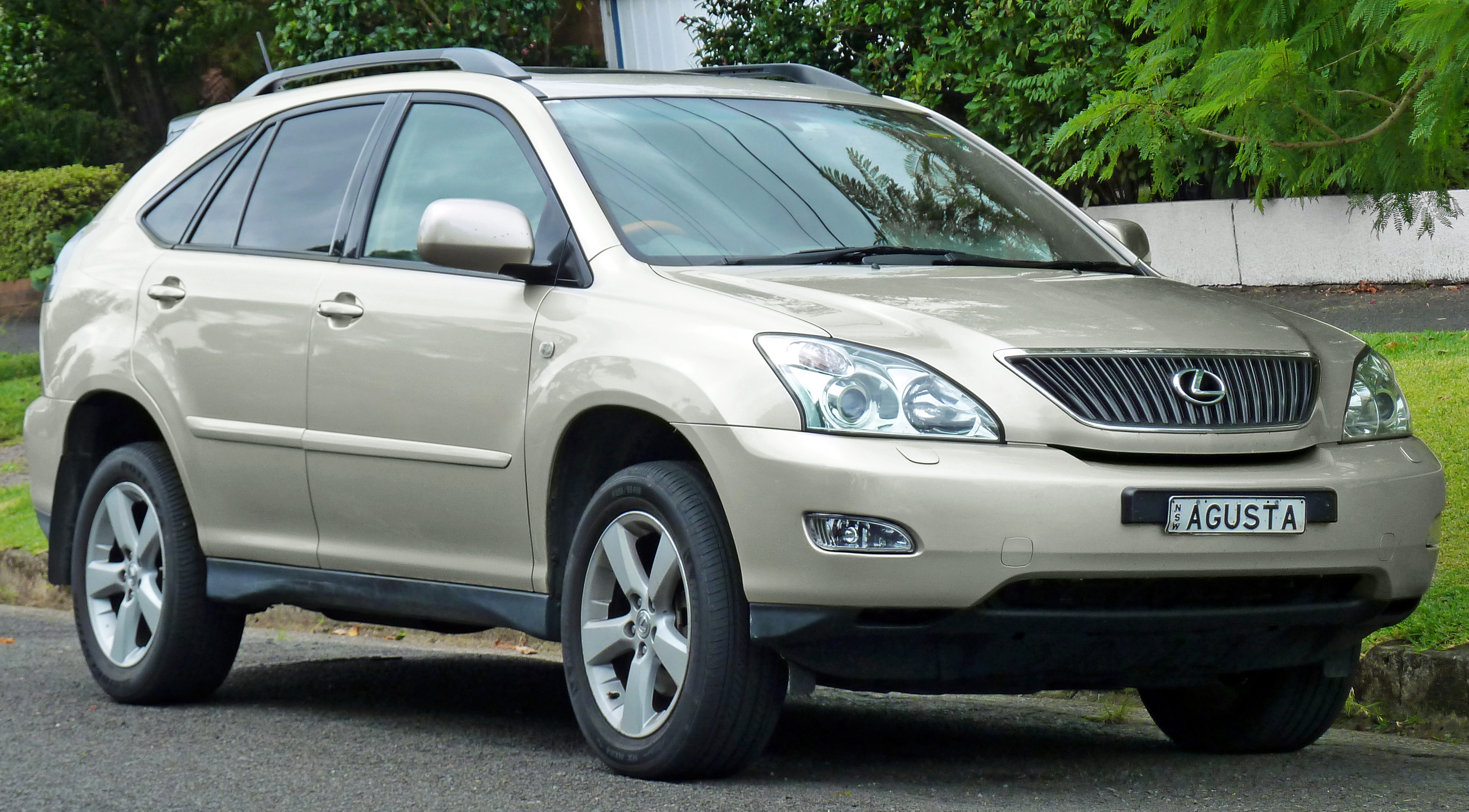 2004–2005 Lexus RX 330 (MCU38R) Sports Luxury wagon. Photographed in Lindfield, New South Wales, Australia.